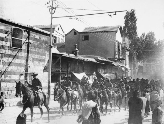 Photo of Chauvel and Desert Mounted Corps riding through Damascus 2 October 1918